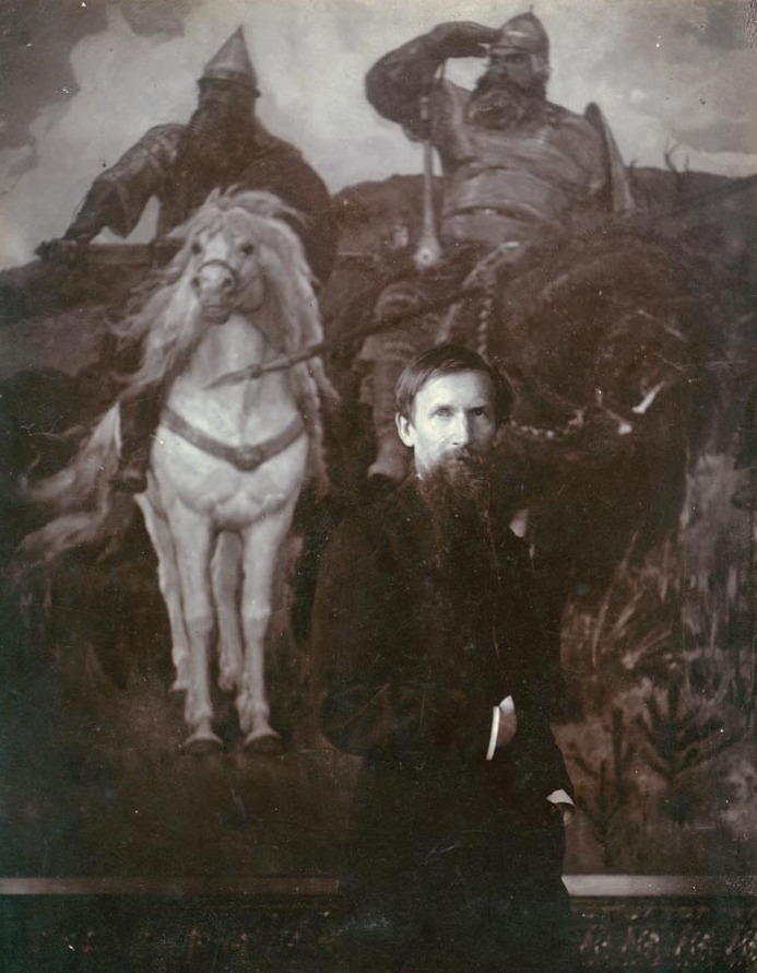 Viktor Vasnetsov, 1898.